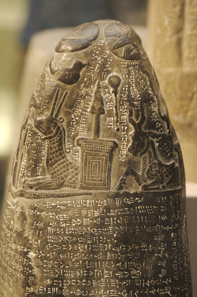 I had a wonderful day at the British Museum with CoryQ (of MonkeyRiverTown) and his wife Mary. These are everything I shot that day, unedited and uncleaned, except for shrinking them some to spead up the upload. (some cuneiform characters) Lines (left) Line 3: meš (cuneiform) Vertical lines: (center): a (cuneiform)-na (cuneiform) (center-right) i (cuneiform)-na (cuneiform)